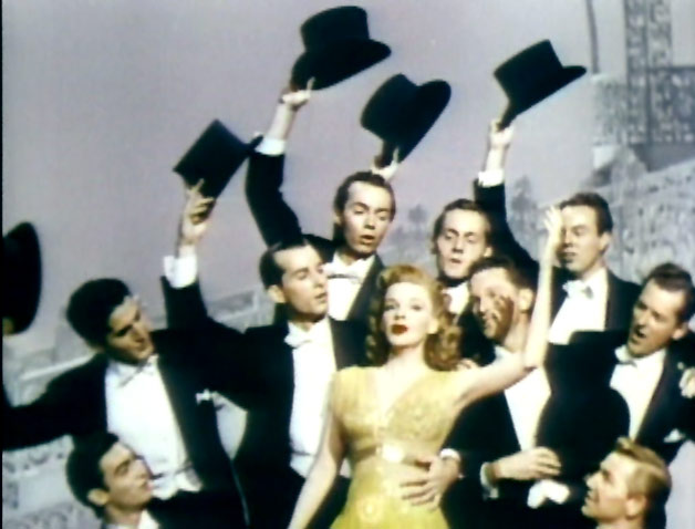 Screenshot of Judy Garland from the film Till the Clouds Roll By